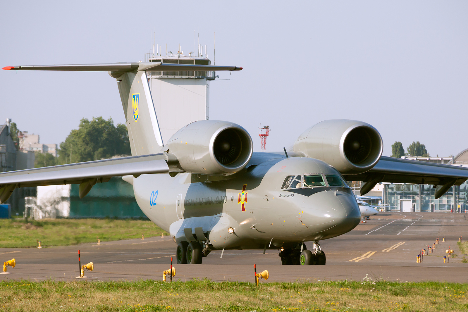 Ukraine National Guard Antonov An-72 at Zhulyany